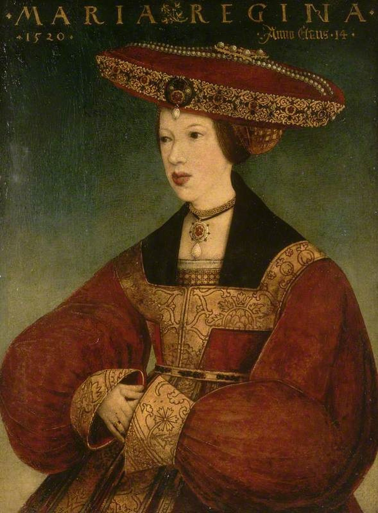 Mary of Austria in 1520 à innssbruck, Queen of Hungary 1522–6, Regent of the Netherlands 1531–56